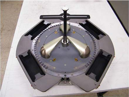 None.